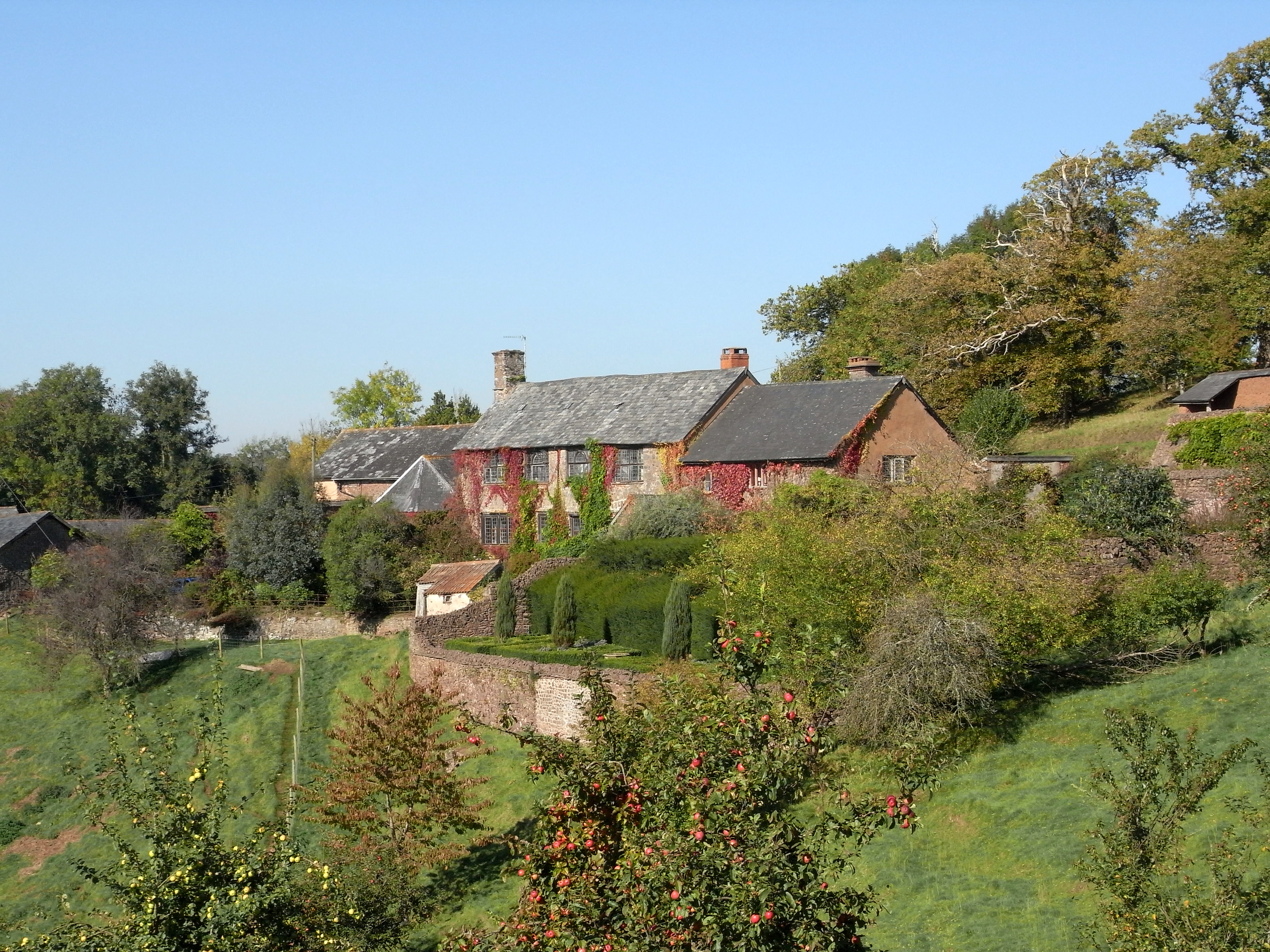 Upcott Barton in the parish of Cheriton FitzPaine, Devon, viewed from south-east